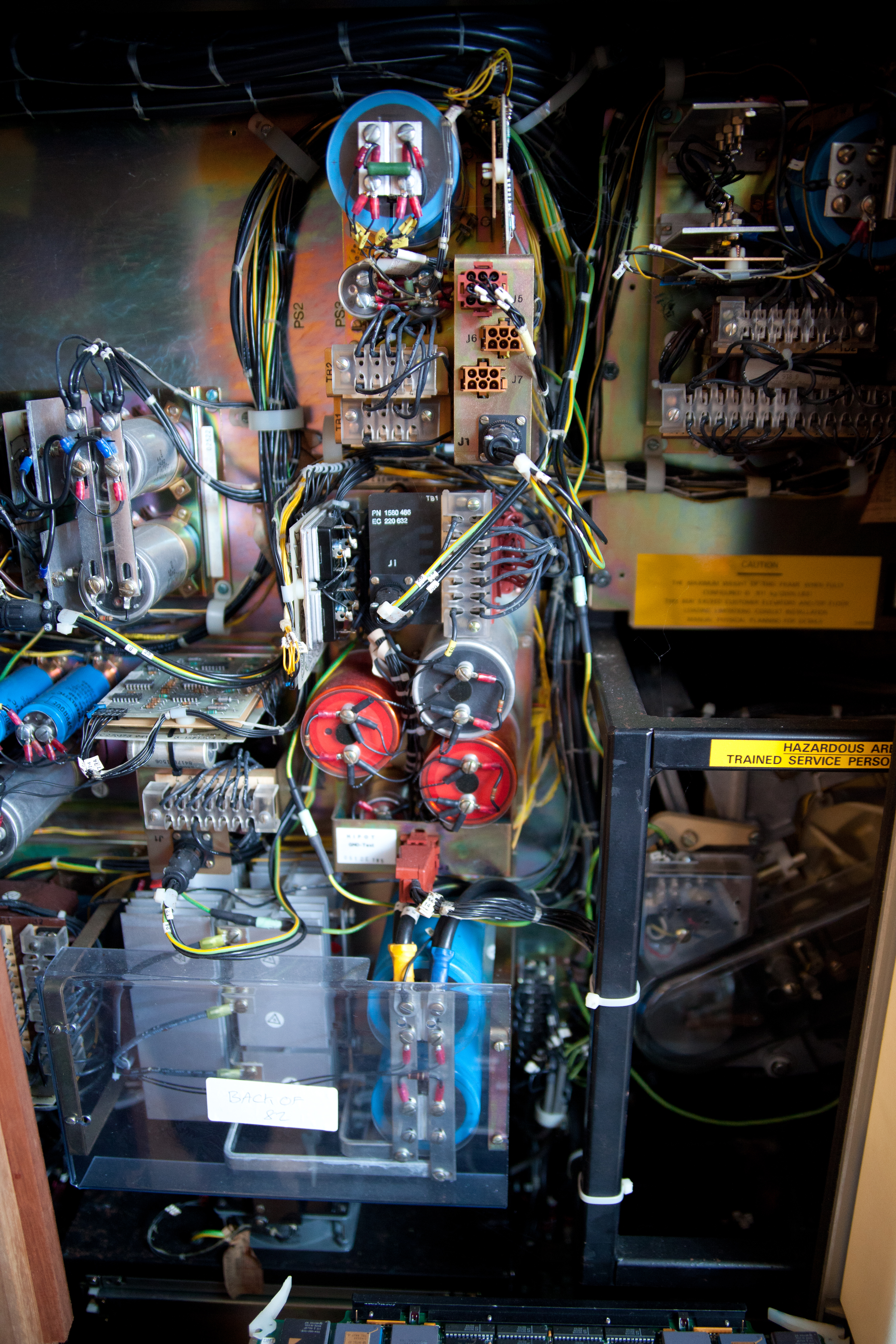 Bits of an IBM Mainframe from Cambridge University, known as Phoenix.